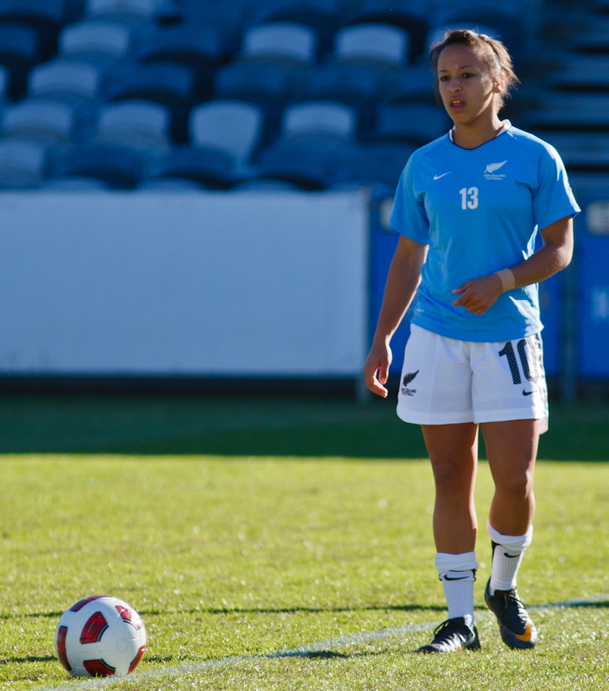 Sarah Gregorius playing for the New Zealand women's national football team against Australia.